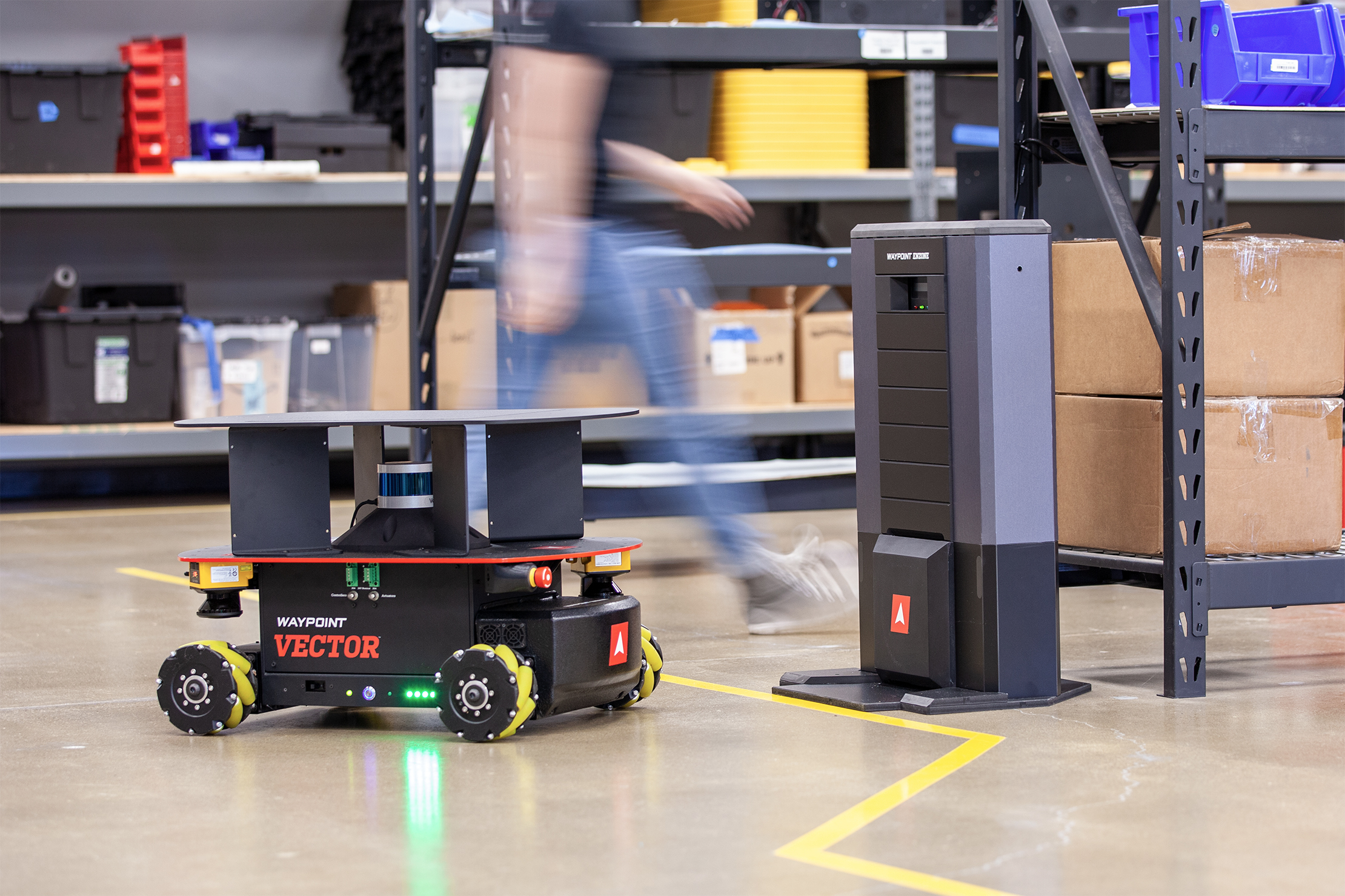 Vector 3D HD omnidirectional autonomous mobile robot docking to EnZone wireless charging station